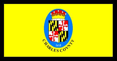 The official flag of Charles County, Maryland, designed in 1976 by Ruby Dyson and Mary Keech Edelen. More information regarding the flag can be found here.